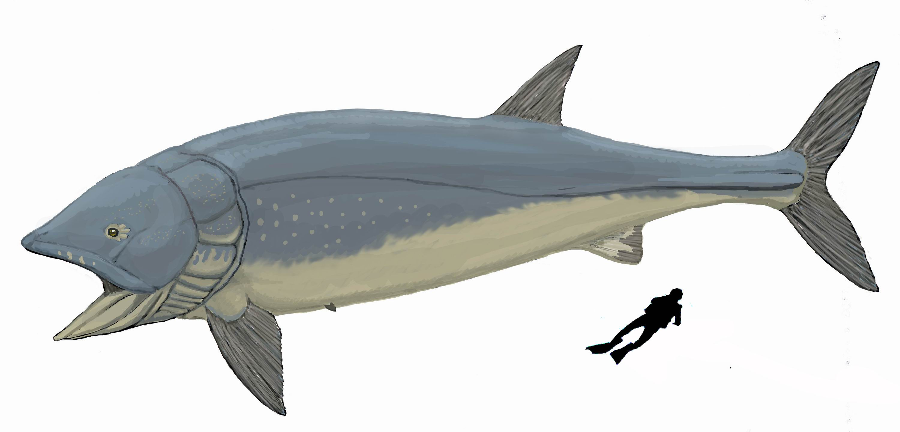 Leedsichthys problematicus. Scuba-diver for scale.